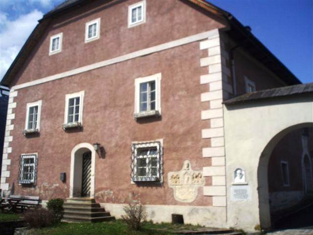 Pfarrhof mit Wirtschaftsgebäude